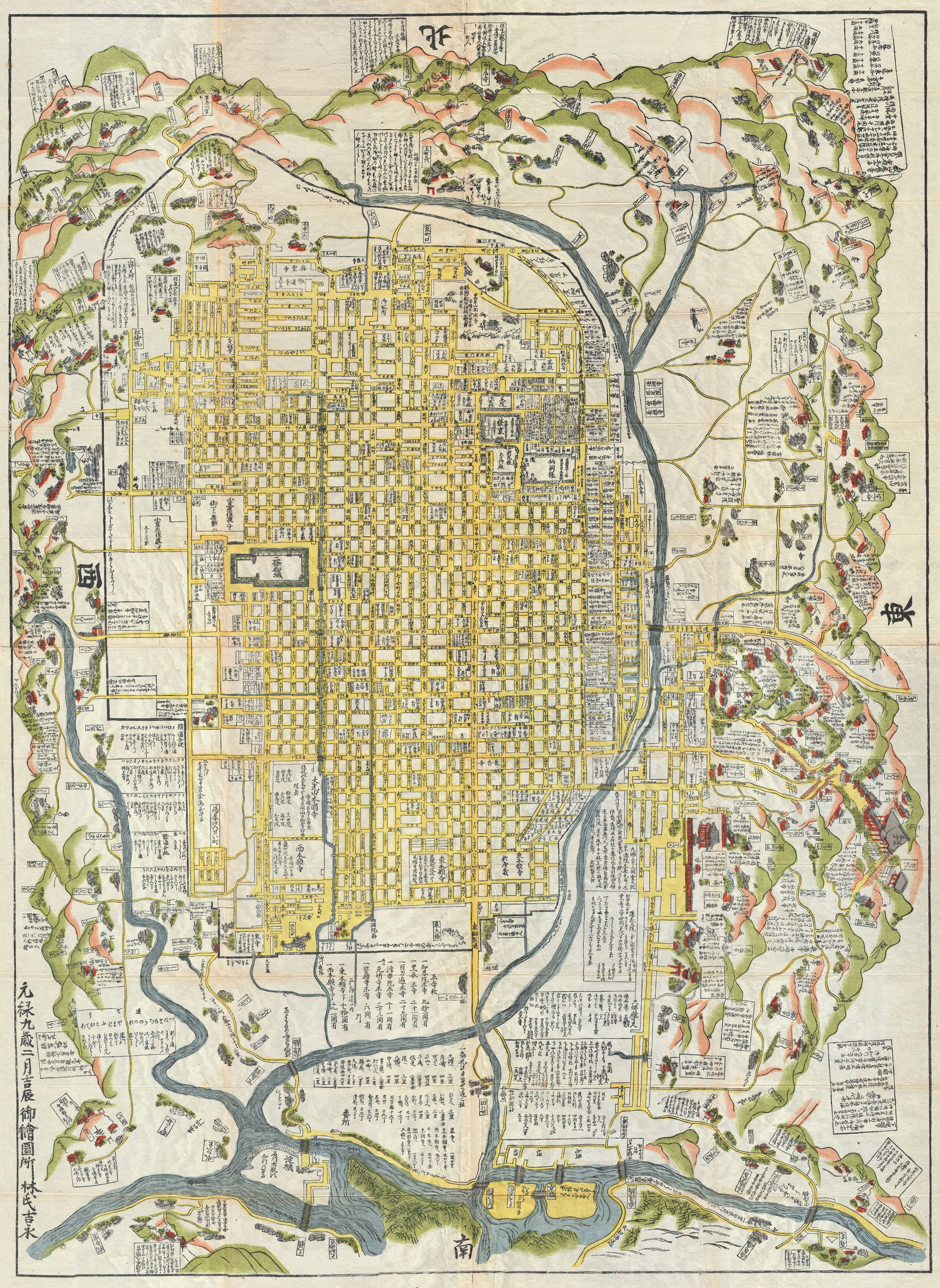 A rare 1696 Japanese woodblock map of Kyoto, Japan. Made in the early Edo period during the 9th year of Genroku era. Covers the city of Kyoto and its immediate vicinity. Like most early Japanese maps, this map does not have a firm directional orientation, rather all text radiates out from the center. Labels streets, waterways, mountains and important buildings. Despite 1696 date, it may be a reissue circa 1860, based upon the type of paper used.